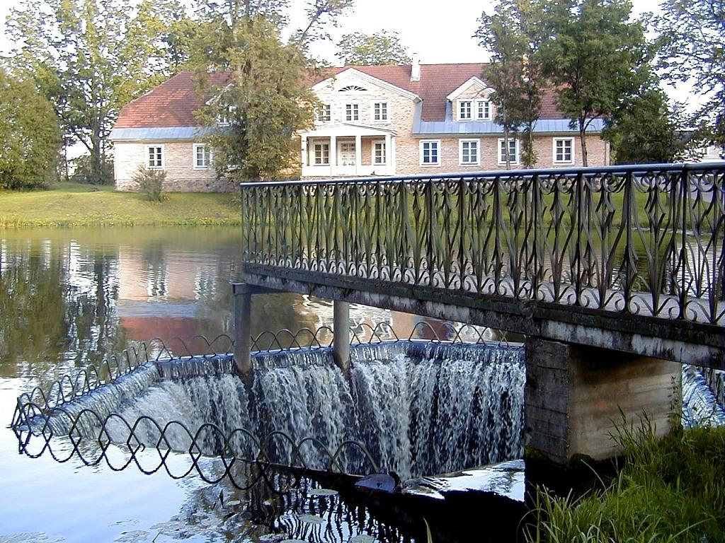 Mūrmuiža Manor, Pond and Weir